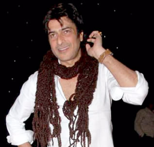 Sharad Kapoor at CNBC India Business Awards 2010